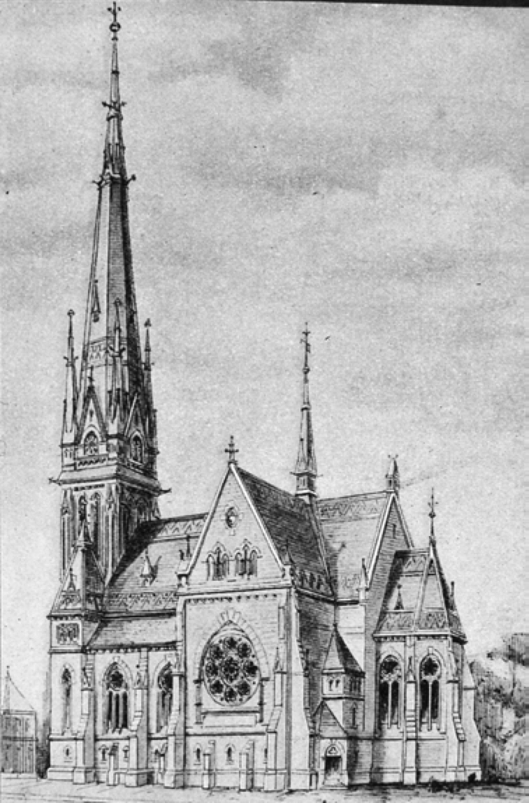 Christuskirche Wuppertal-Barmen, Germany, 1887